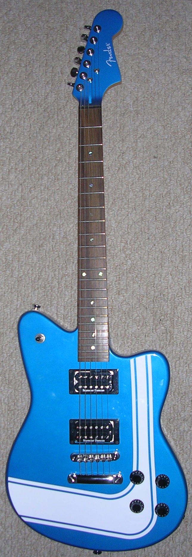 This is a photo of a Fender Toronado GT HH. The serial number of this particular guitar is 06087998.